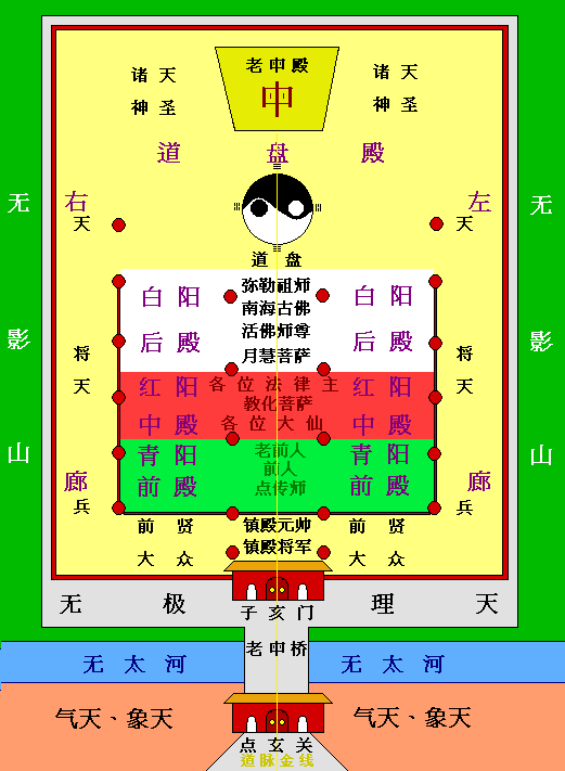 Representation of Yiguandao cosmology (in Chinese).